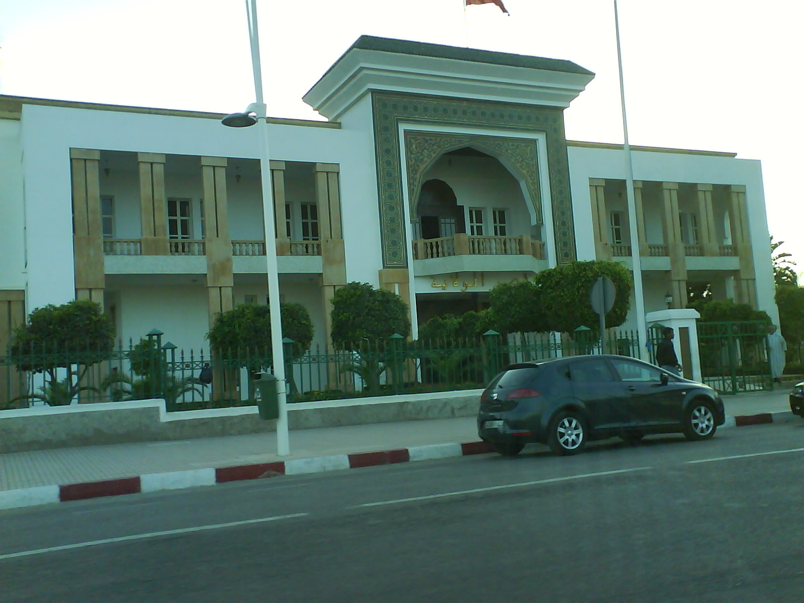 Palace of Tetouan prefecture